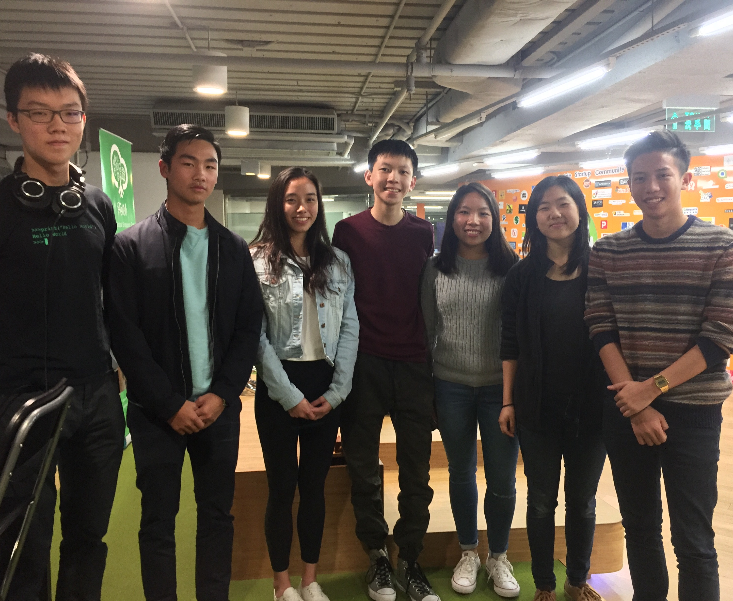 Leaders excluding regional management